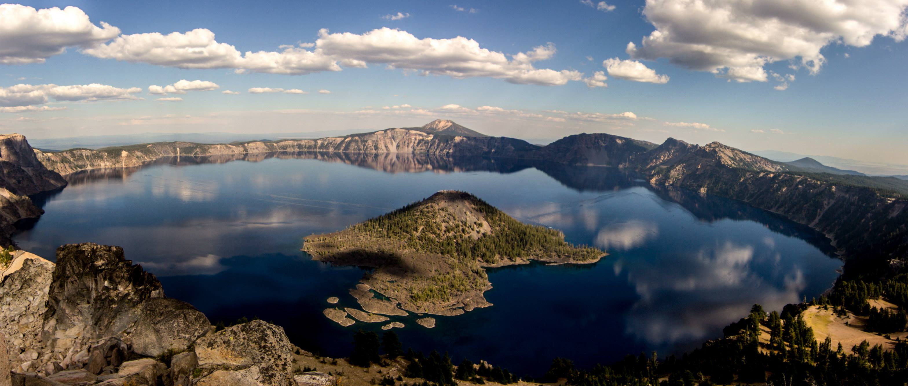 A panoramic photo of Crater Lake and Wizard Island taken around sunset from Watchman Lookout Station